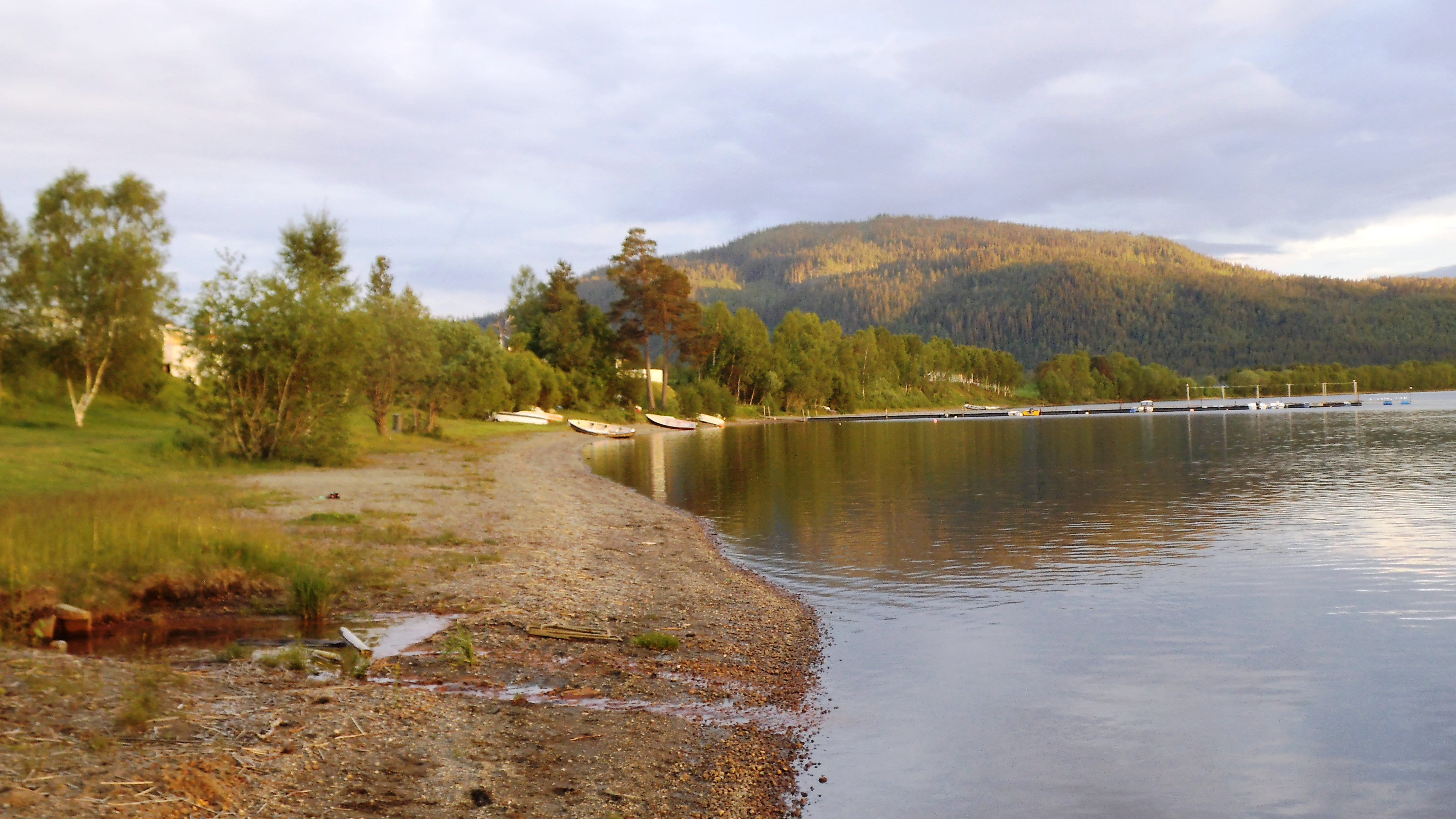 A campsite in Gåsbakken, Melhus, Norway.